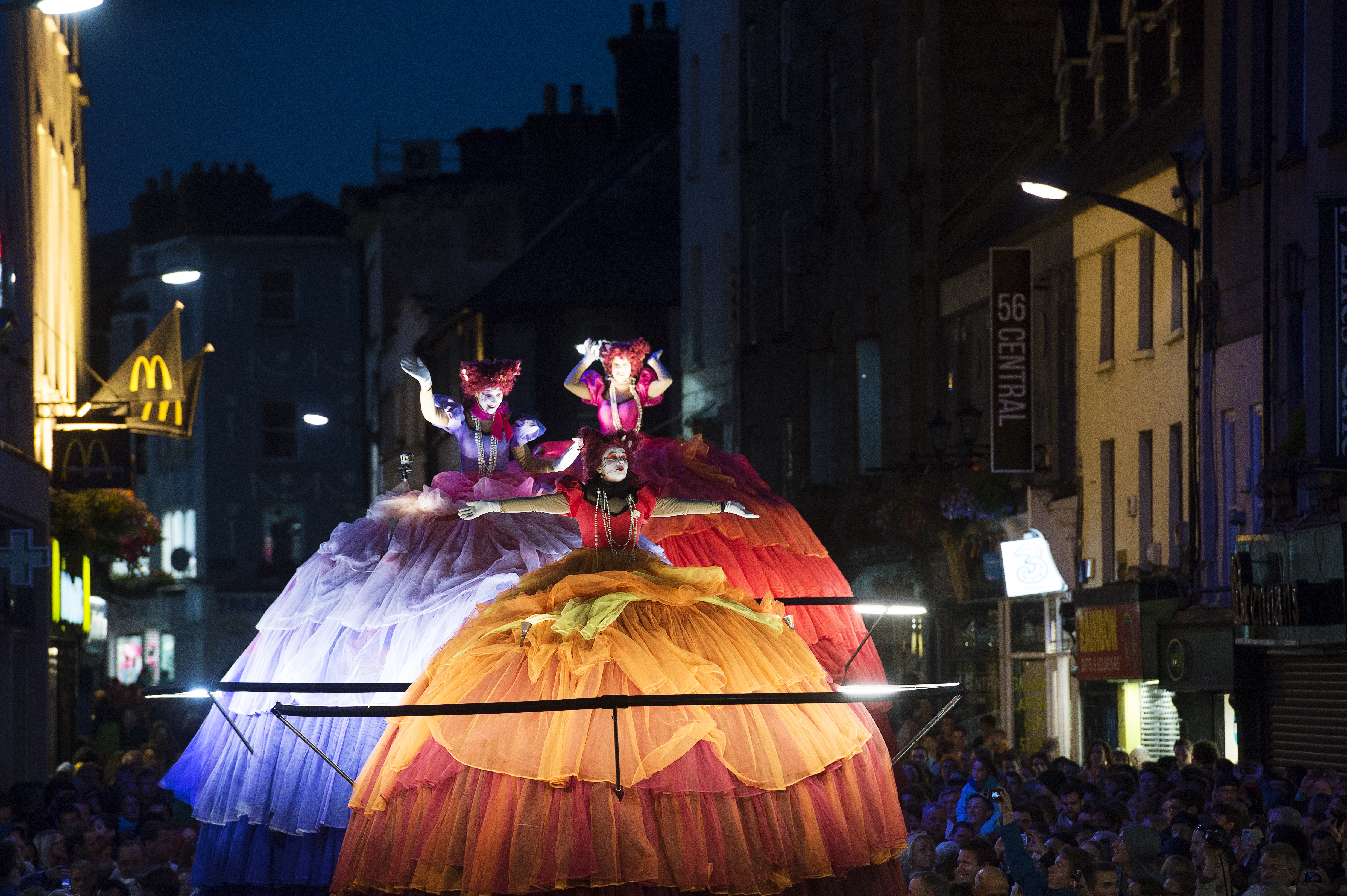 Giant Divas GIAF 2015